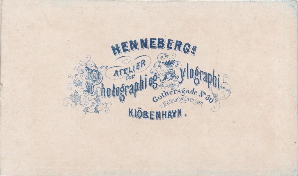 Henneberg logo